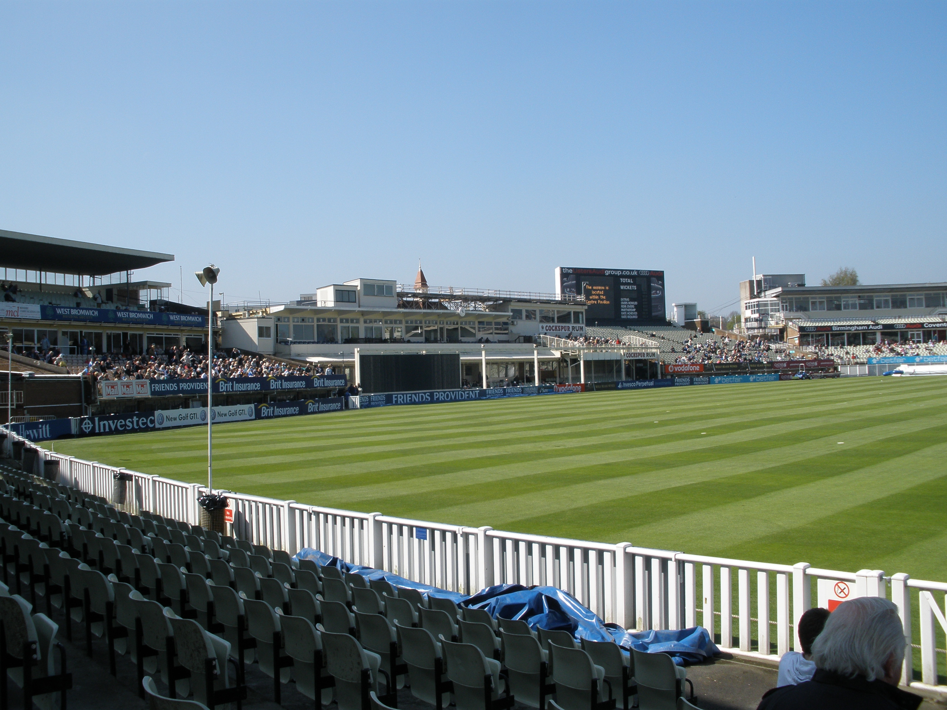 From left to right, the R. V. Ryder Stand, the Pavilion, The Leslie Deakins Stand and the William Anseel Stand at Edgbaston Cricket Ground.